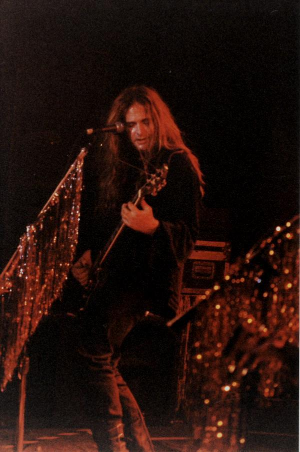 Joe Hasselvander playing guitar